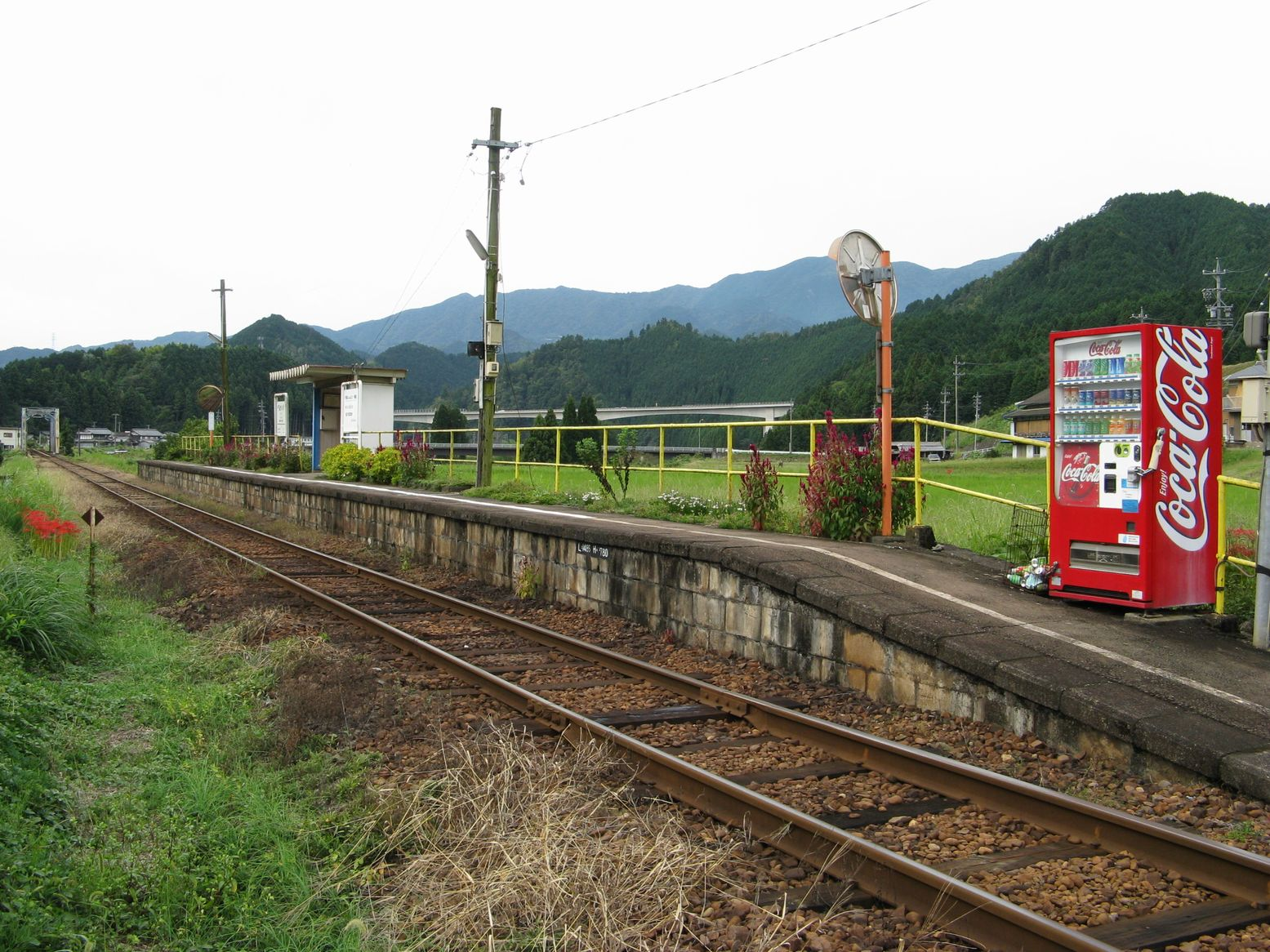 Akaike Station on the Nagaragawa Railway Etsumi-Nan Line in the city of Gujō, Gifu Prefecture, Japan